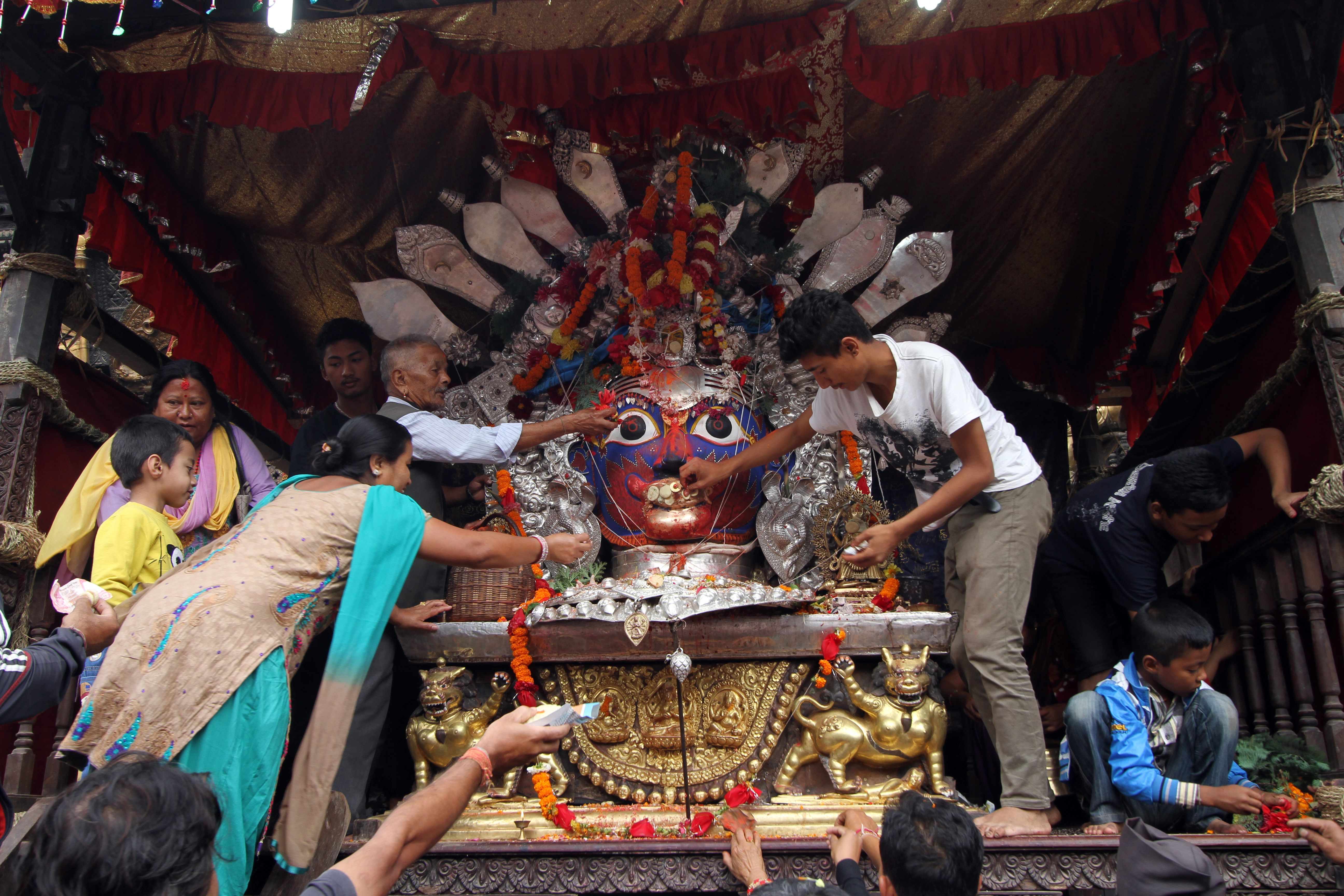 Akash Bhairab Mandir in Kathmandu in Nepal